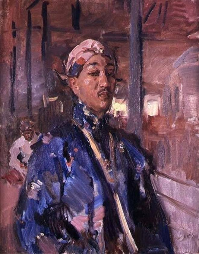 Portrait of the Javanese prince: sultan of Pangéran Ario Praboe Mangkoenegara VI